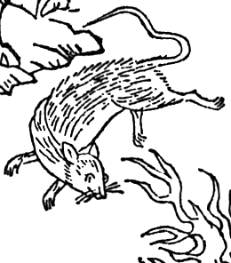 Kaso (火鼠) from the Wakan Sansai Zue (和漢三才図会)